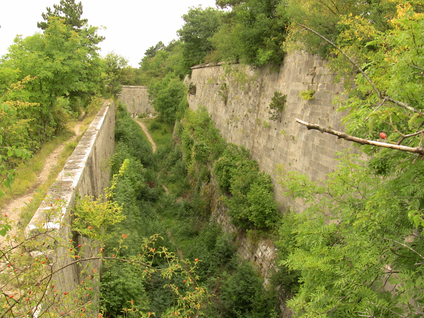 The Fort of Bregille, located in Besançon (Doubs, France)